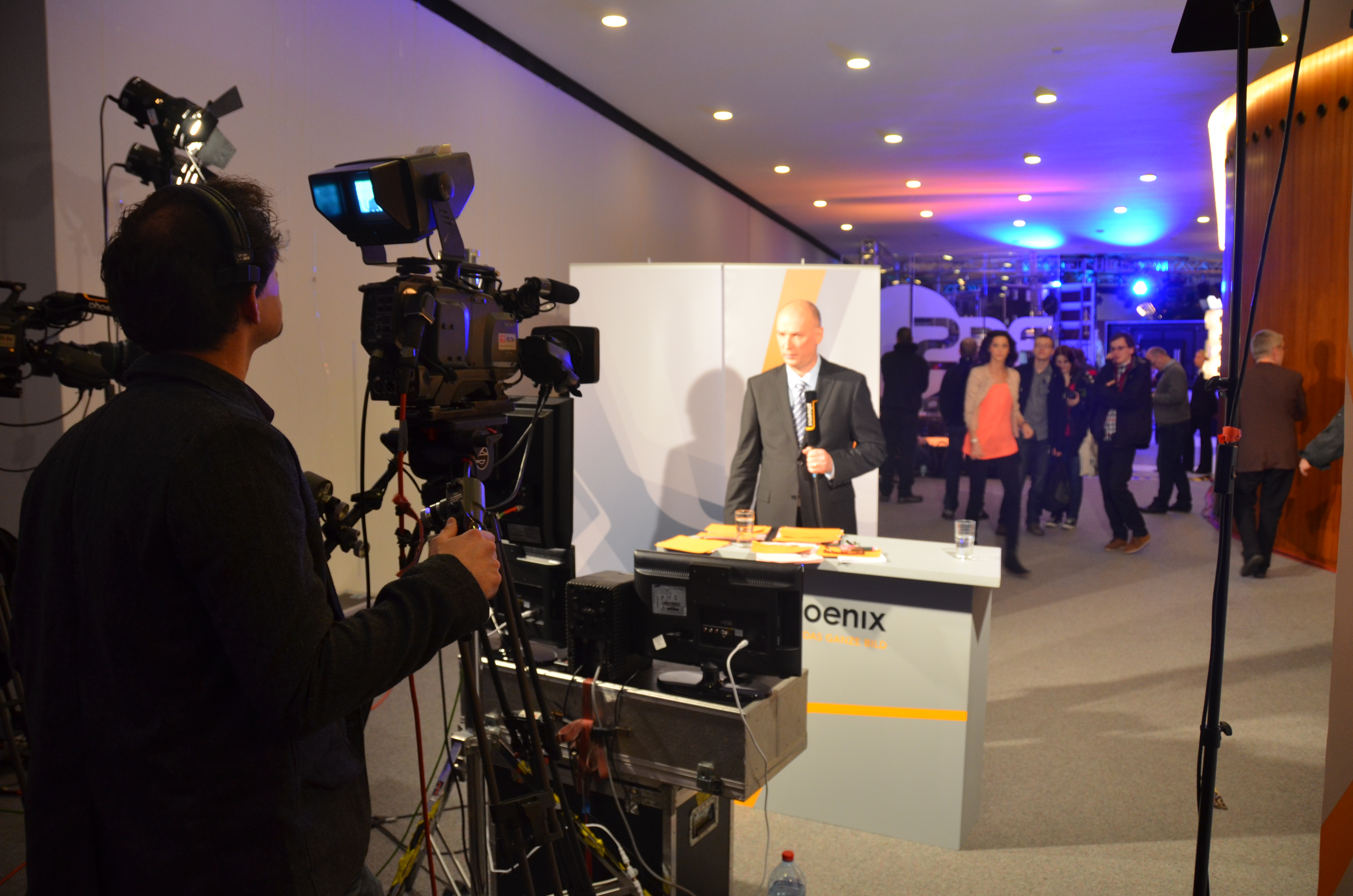 Wikipedia im Landtag – Niedersachsen 20. Januar 2013 in Hannover am WahlabendDieses Bild entstand während der Landtagswahl in Niedersachsen 2013 im Landtag Hannover. This work is free and may be used by anyone for any purpose. If you wish to use this content, you do not need to request permission as long as you follow any licensing requirements mentioned on this page.